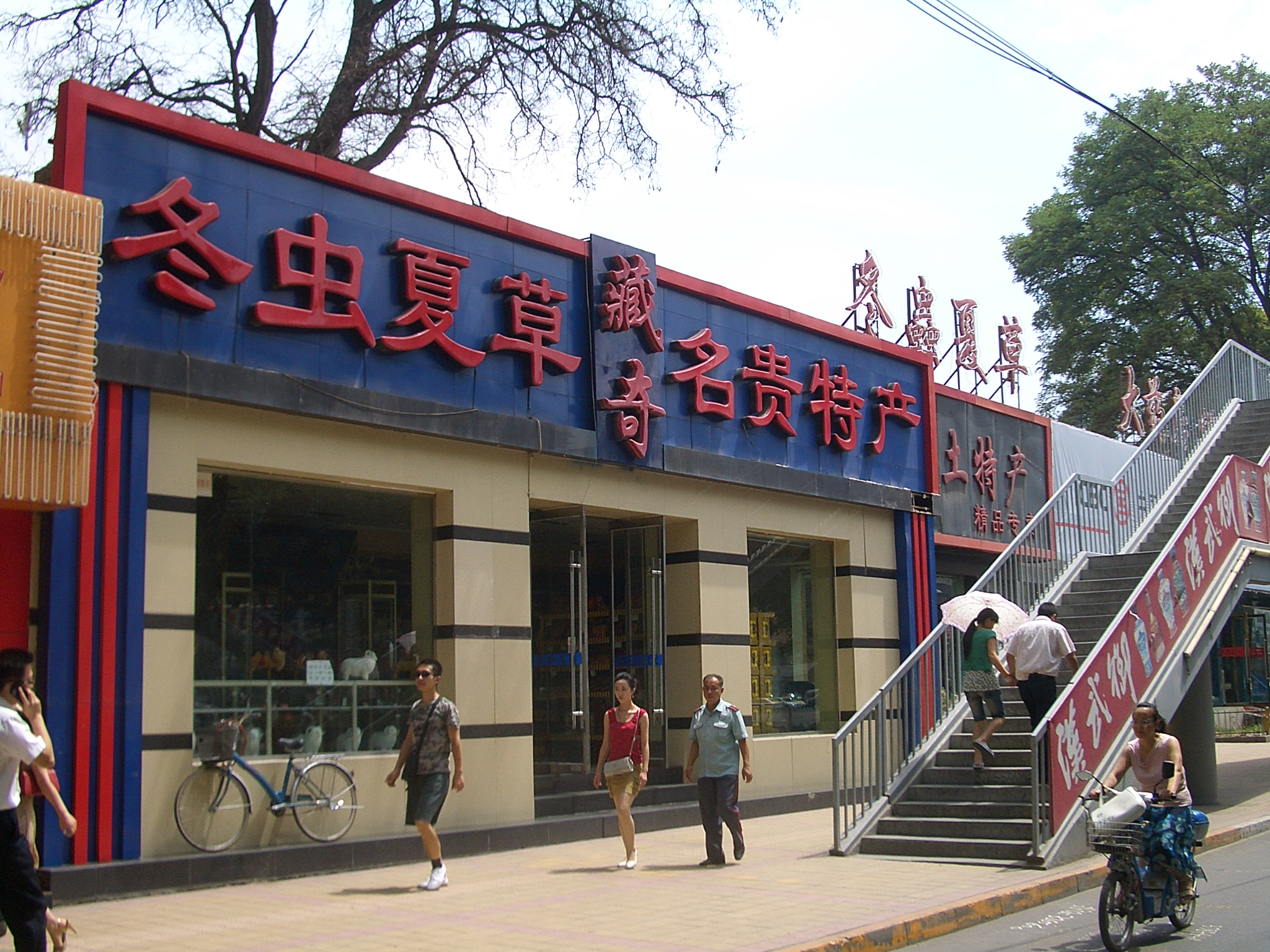 Shops in Lanzhou advertising Dong chong xia cao 冬虫夏草 (Caterpillar fungus, Ophiocordyceps sinensis), and other special products of the Qinghai-Tibetan Plateau.